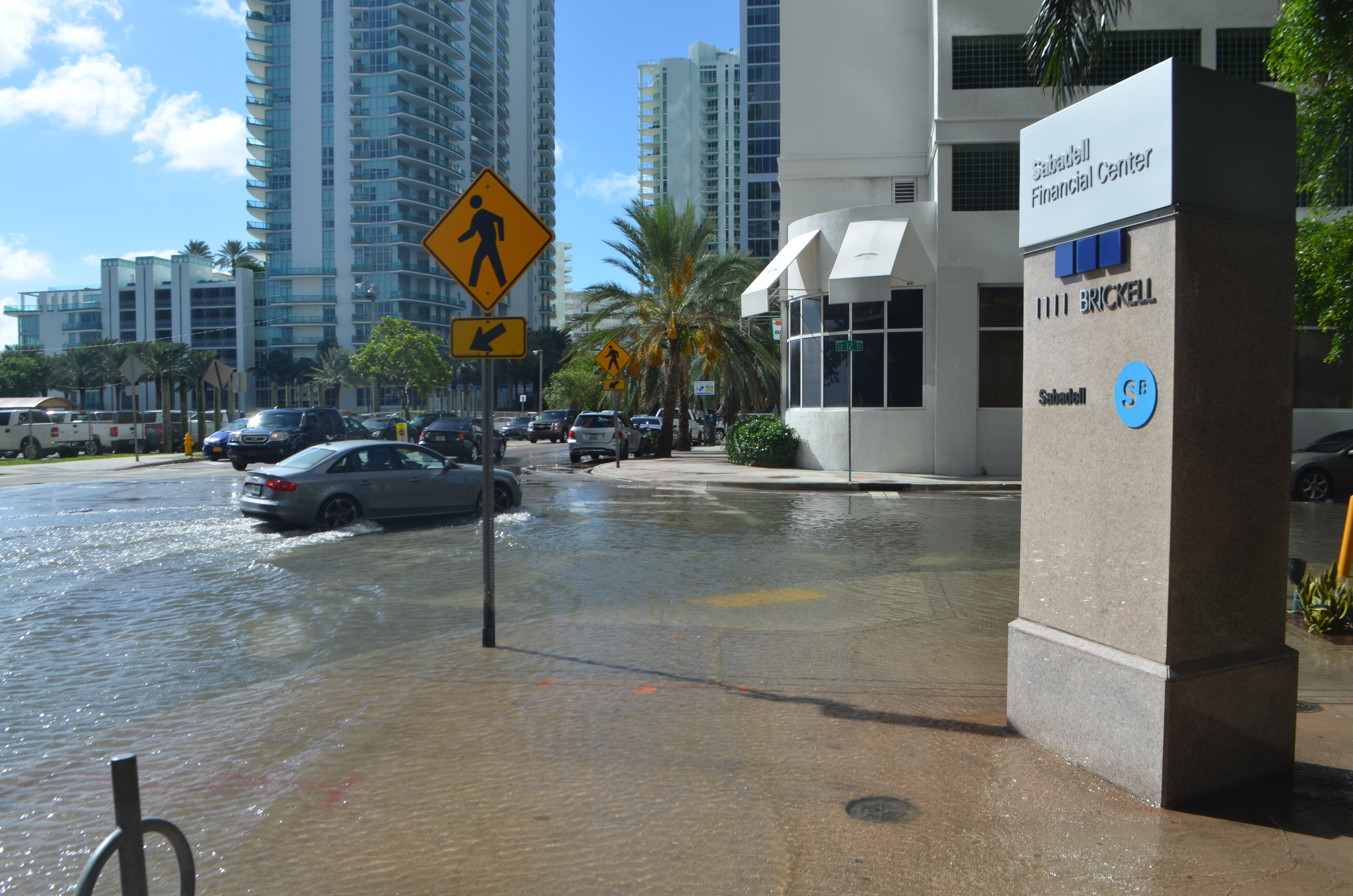 Sunny day high tide nuisance flooding in Brickell, downtown Miami Florida. The morning high tide on October 17, 2016. Roughly 4.0 ft MLLW, +3 ft above MSL, 2 ft NAVD 88, about 1.75 feet MHHW for Miami, Virginia Key tide gauge. This location rounds to 0 meters/0 feet AMSL.